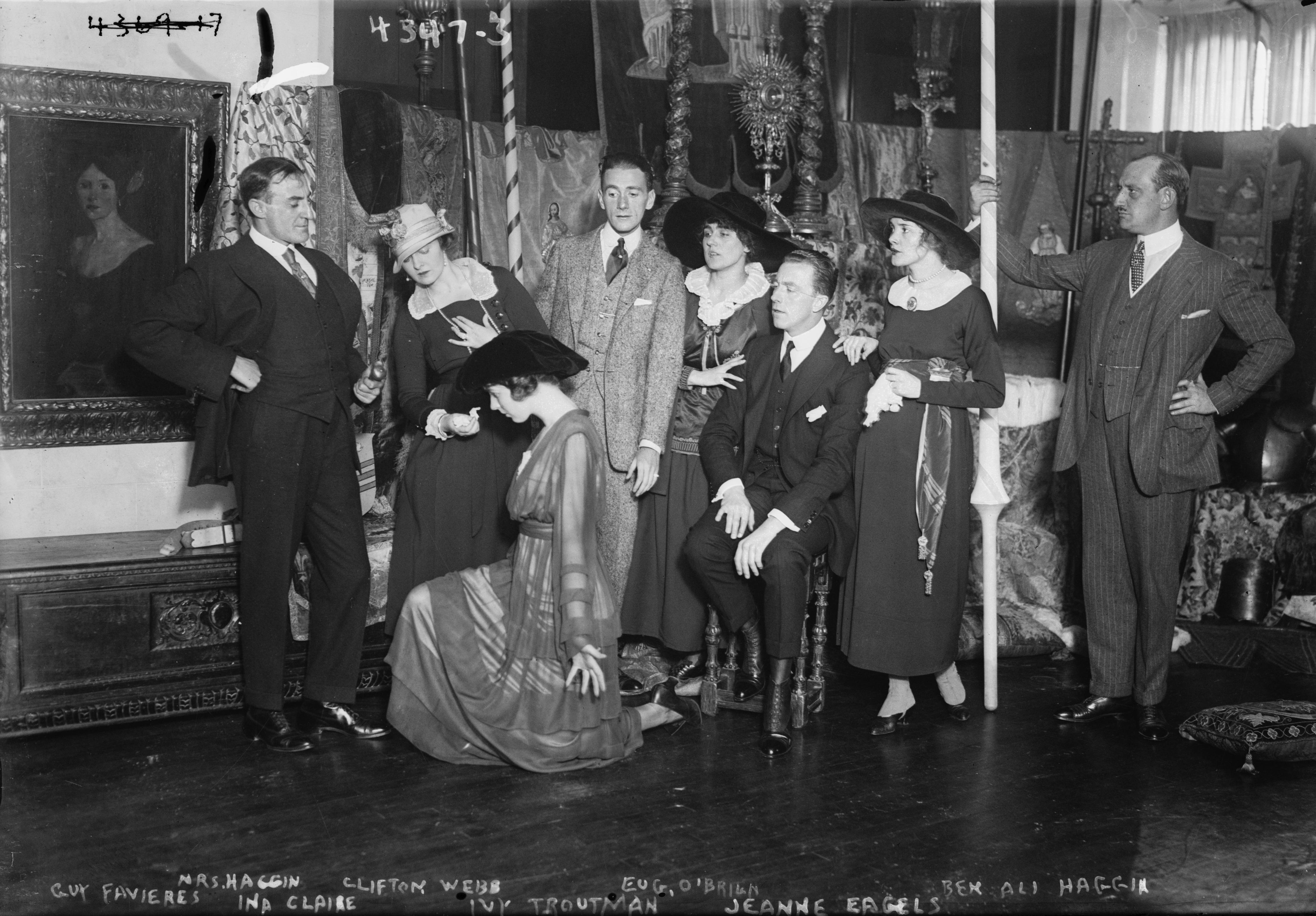 Photo of Guy Favières, Mrs. Haggin, Ina Claire, Clifton Webb, Ivy Troutman, Eug O'Brian, Jeanne Eagels, and James Ben Ali Haggin III.